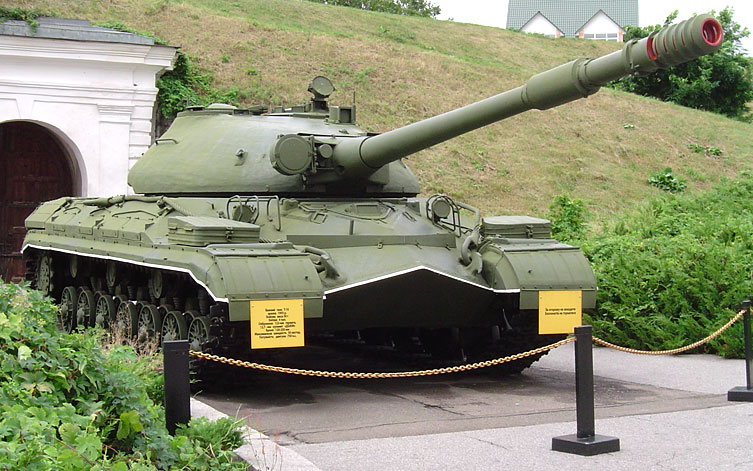 A Soviet T-10 heavy tank, on display near the Museum of the Great Patriotic War, Kiev, Ukraine.